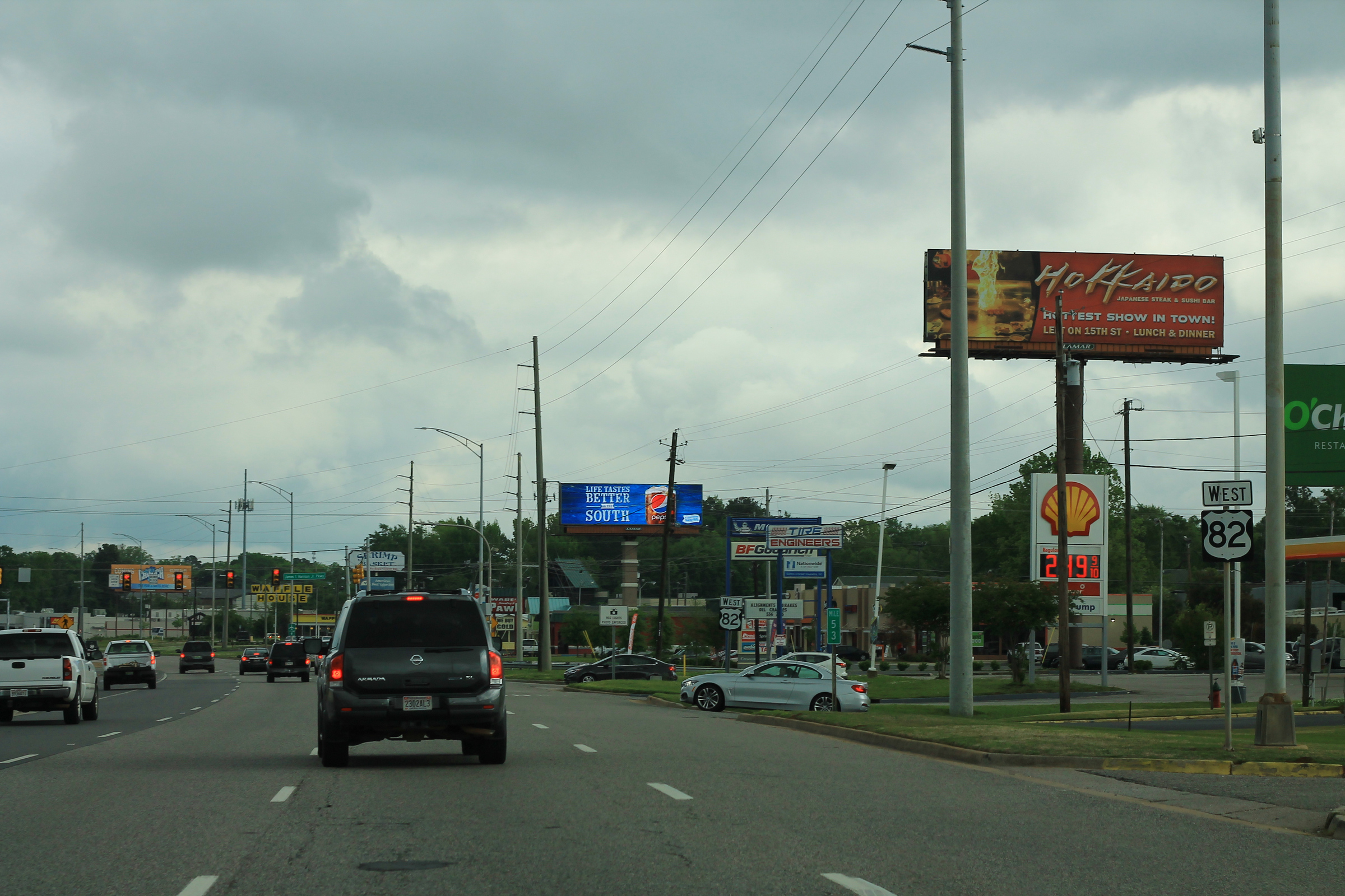 US82 West Signs - Tuscaloosa